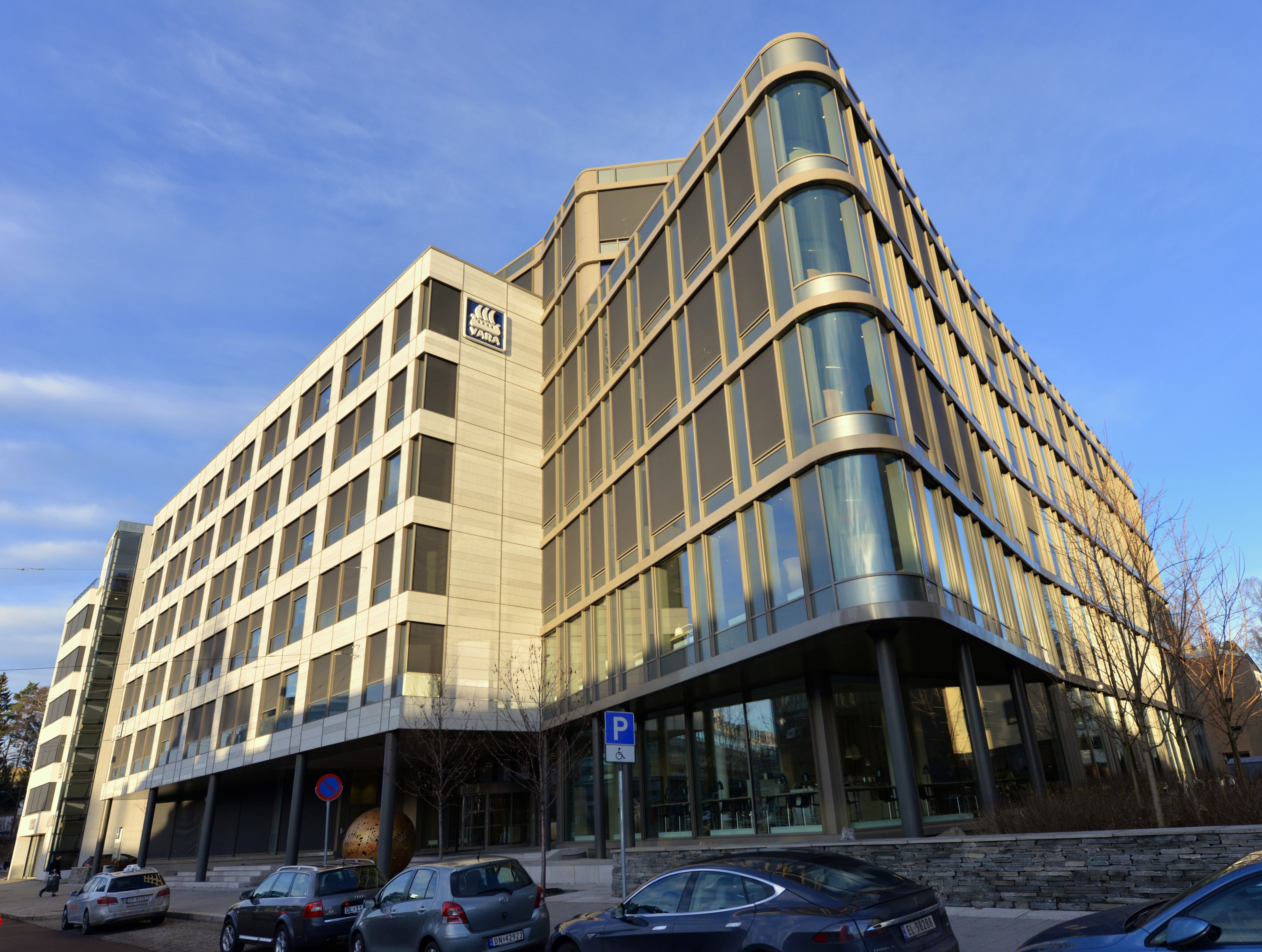 Yara House, the headquarters of Yara International